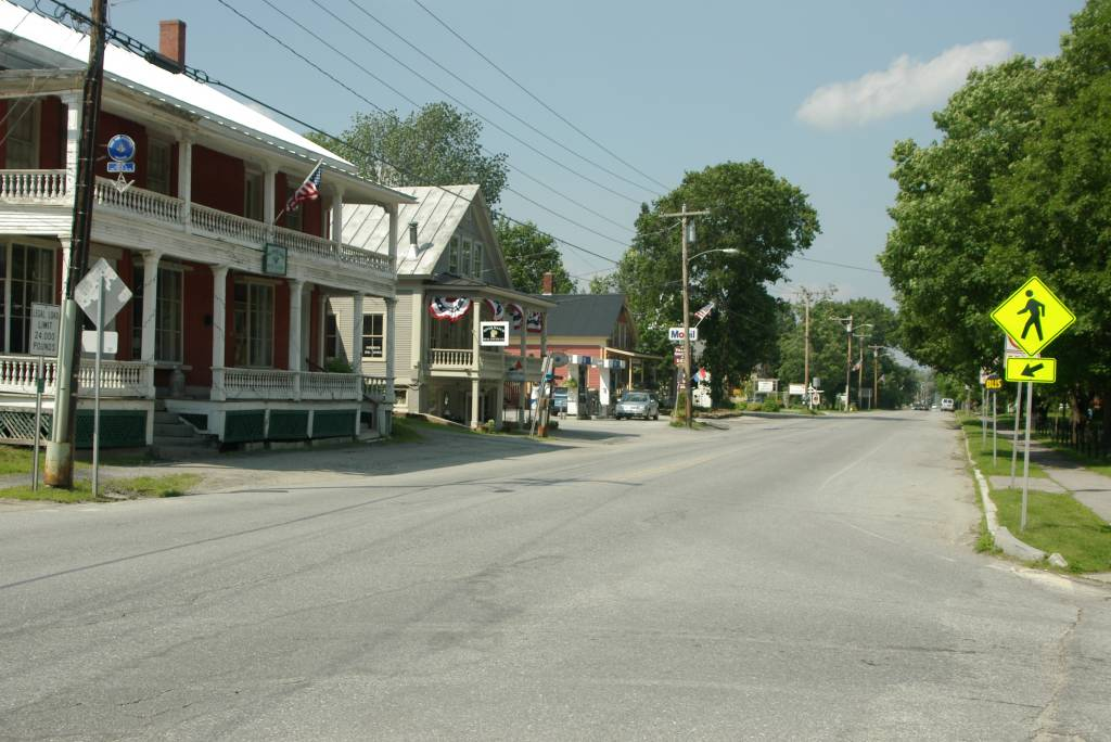 Downtown Waitsfield Vermont, USA Source: Photograph taken by M.S.Maguire Copyright: ©2006 M.S.Maguire